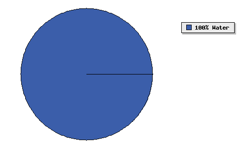 Stroometiket van de Nederlandse Energie Maatschappij over 2009